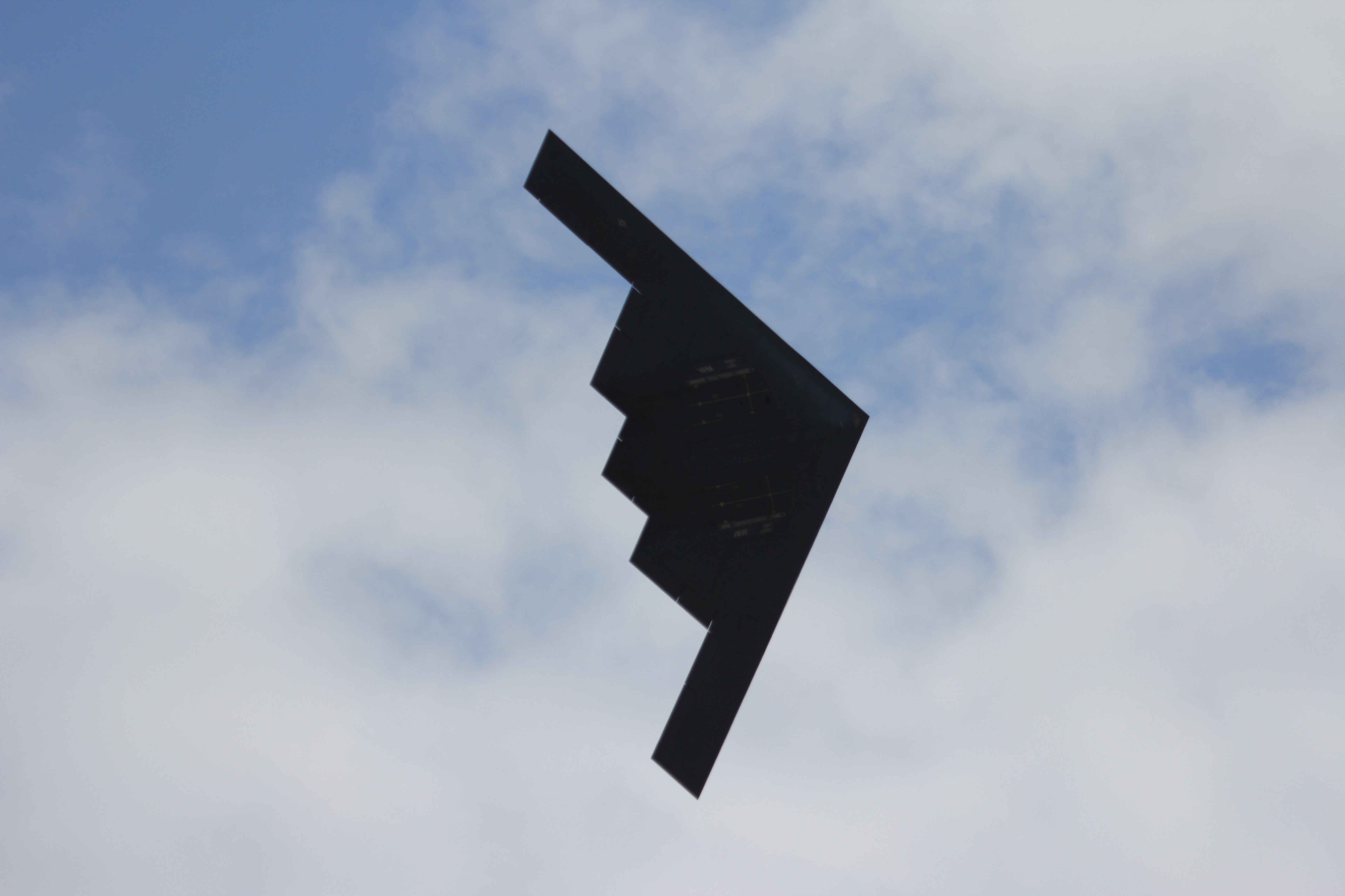 Northrop-Grumman B-2 Spirit "Spirit of Ohio" 82-1070